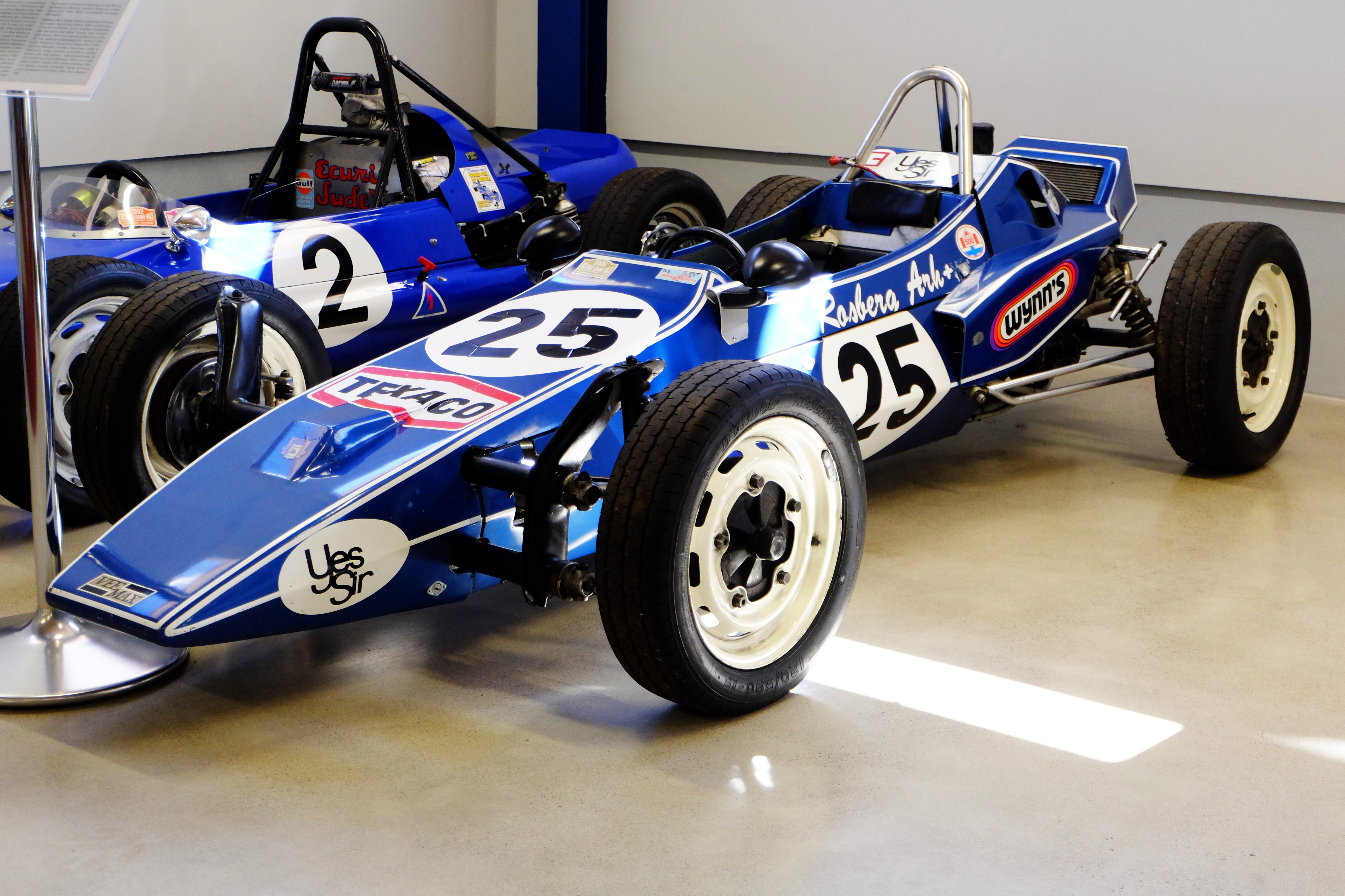 This 1970 Veemax Mk IVB served both Lars Lincoln and Keke Rosberg during their Formula Vee careers. It was Keke's first bigger formula car after his seasons in karting. With this car, Rosberg took 3rd place in Finnish and 2nd in Nordic Formula Vee championship standings in season 1972. The "Arh+" decal on the side refers to Rosberg's blood type.